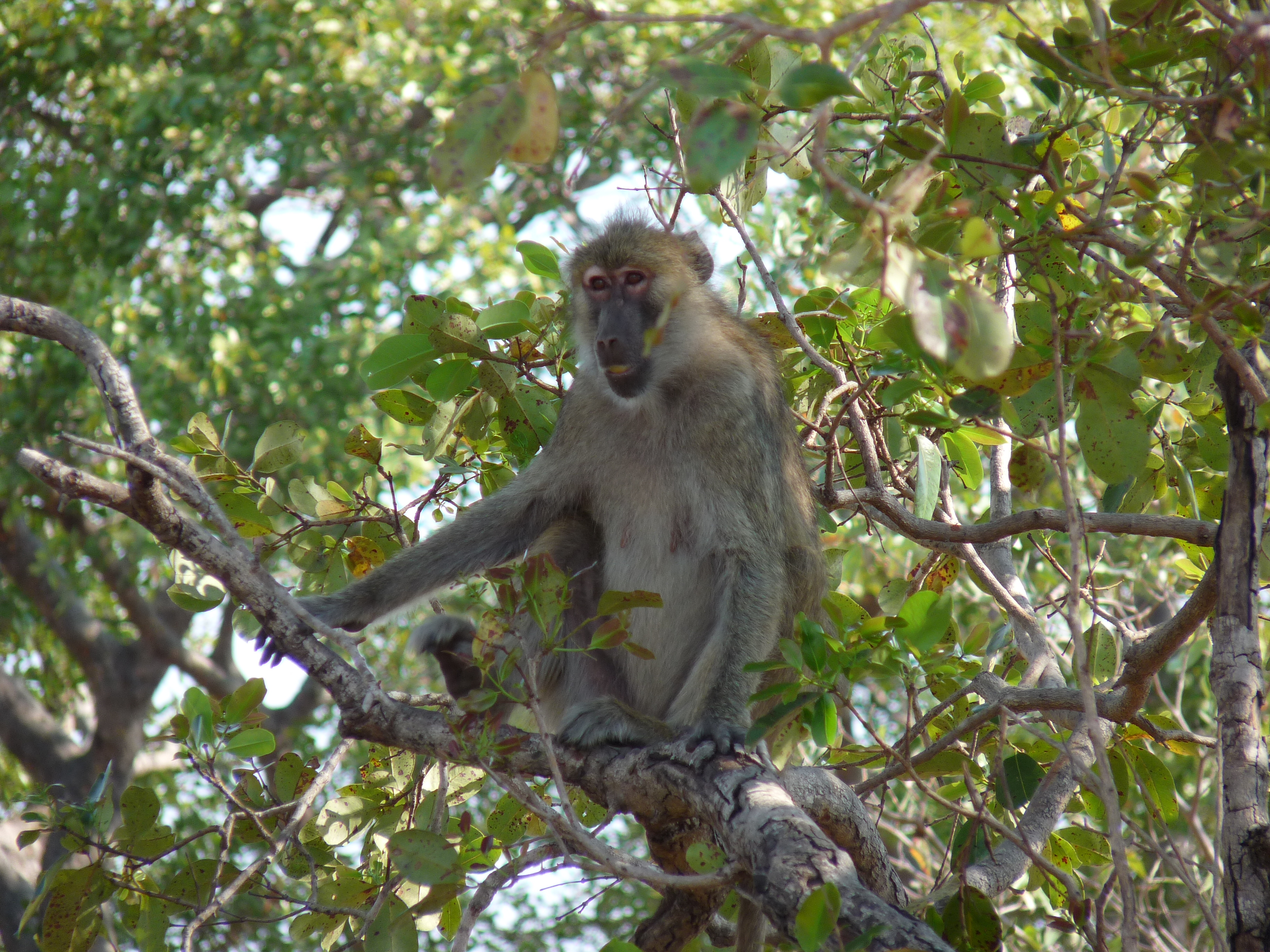 Female Kinda baboon at Chunga, Kafue National Park, Zambia